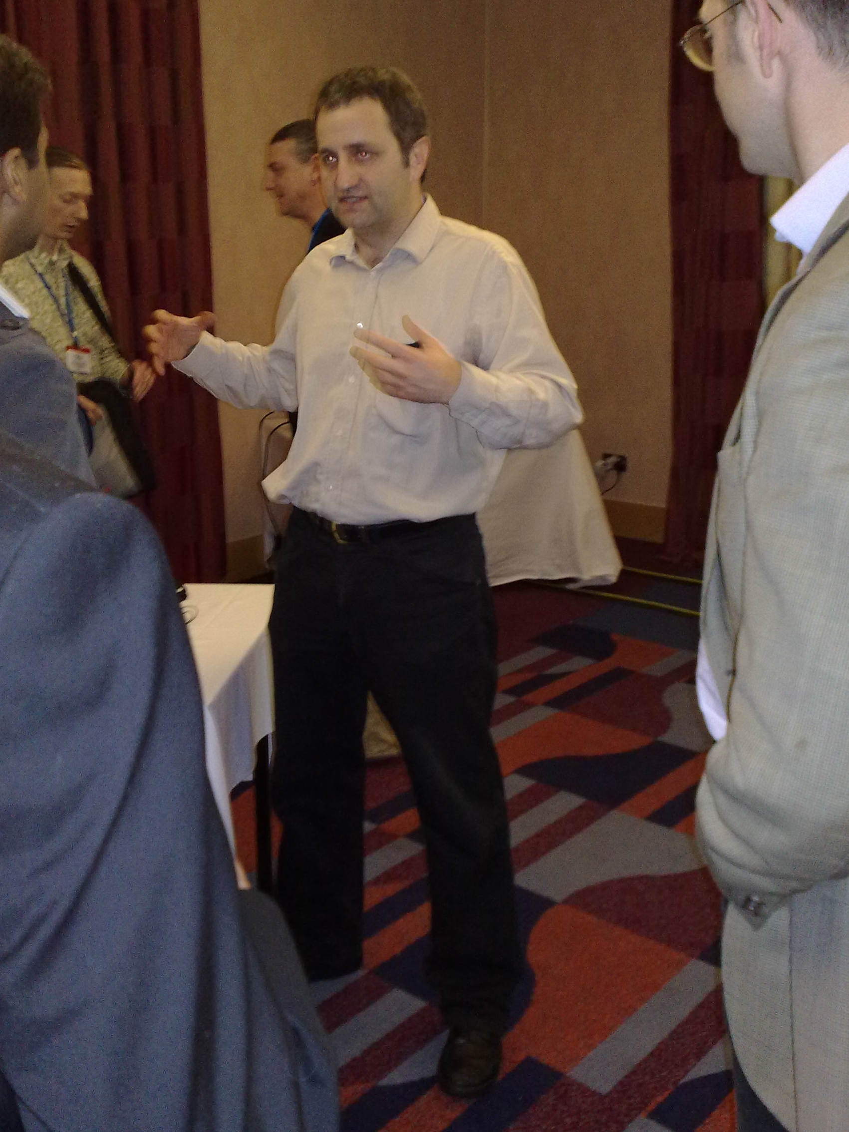 Andrei Alexandrescu at the ACCU 2009 conference